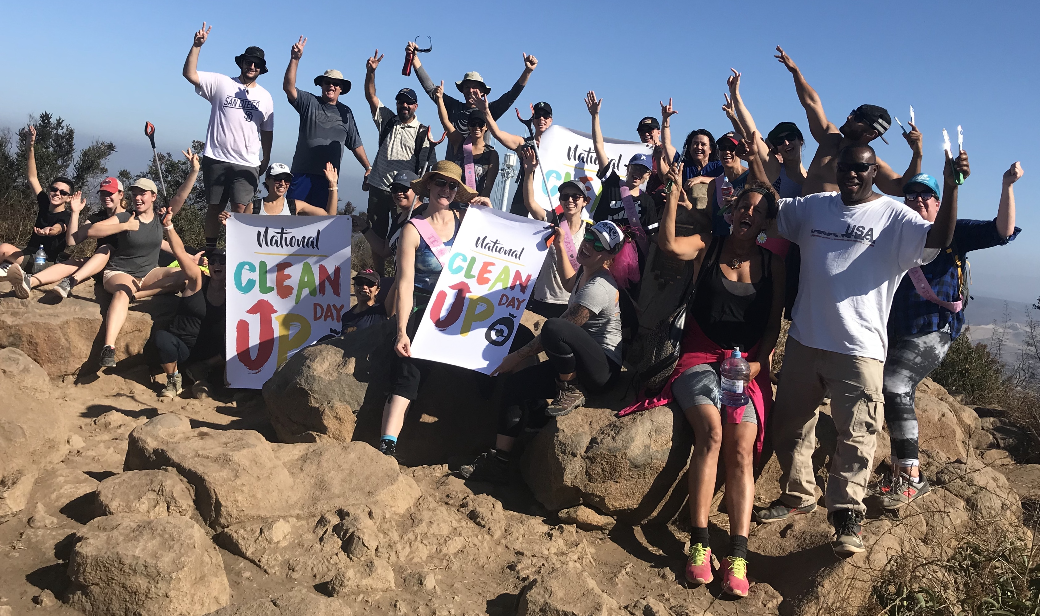 National CleanUp Day Cowles Mountain 2019 Group